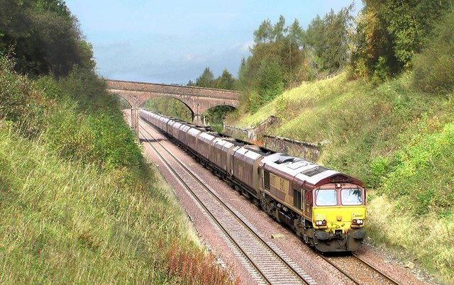 Site of Crosby Garrett station This south bound coal train is passing the site of Crosby Garrett station. Closed in 1956, the platforms were set into the cutting needing hefty retaining walls. The station house which still exists as a private dwelling is hidden from view behind the trees on the right of the overbridge.